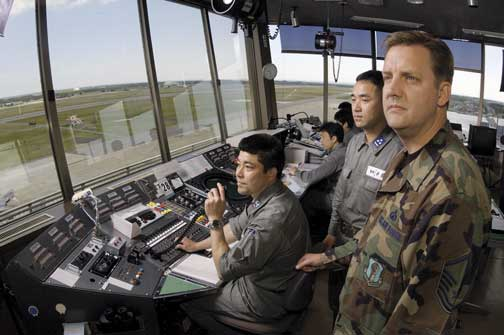 Master Sgt. Charles Adams (right), chief of air traffic control at Misawa Air Base, Japan, said working side-by-side with members of the Japan Self Defense Forces has taught him understanding. He’s also learned to be comfortable with the Japanese culture, wearing slippers when working in the control tower alongside local controller Japanese Tech. Sgt. Katsuyuki Kubo (left) and shift supervisor Japanese Capt. Nobuyuki Itoh (standing). Inside the control tower at Misawa Air Base, taken from and uploaded by me. -Lommer 04:07, 21 May 2005 (UTC)